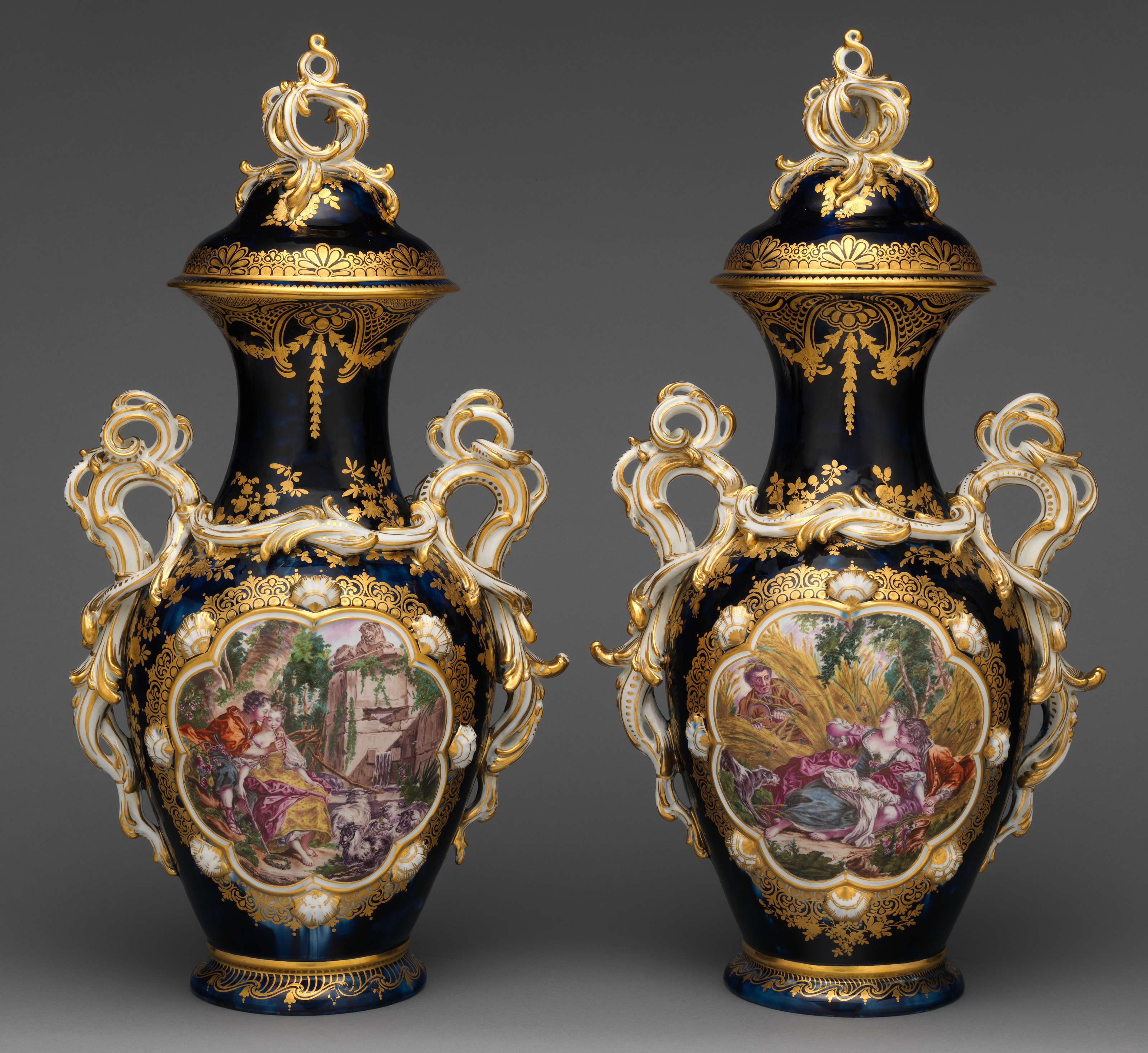 British, Chelsea; Vase; Ceramics-Porcelain